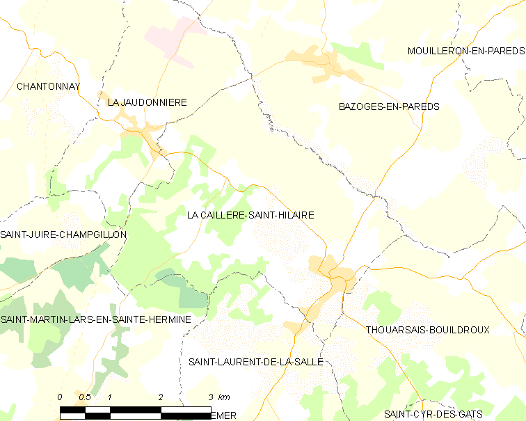 Map of French municipality La Caillère-Saint-Hilaire